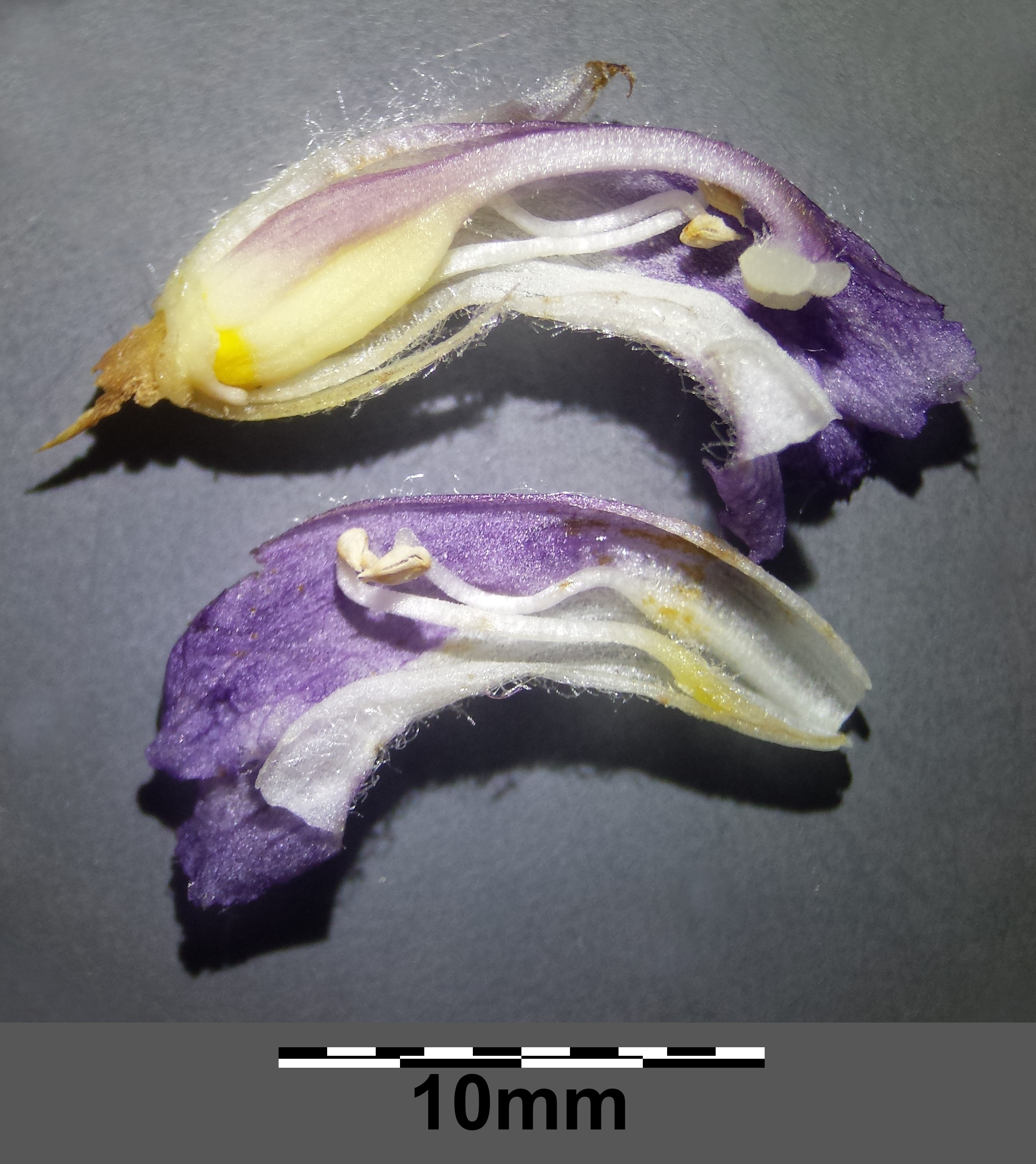 Flower, opened Taxonym: Orobanche coerulescens ss Fischer et al. EfÖLS 2008 ISBN 978-3-85474-187-9 Location: Latschenberg near Altenmarkt im Thale, district Hollabrunn, Lower Austria - ca. 350 m a.s.l. Habitat: sandy fallow land